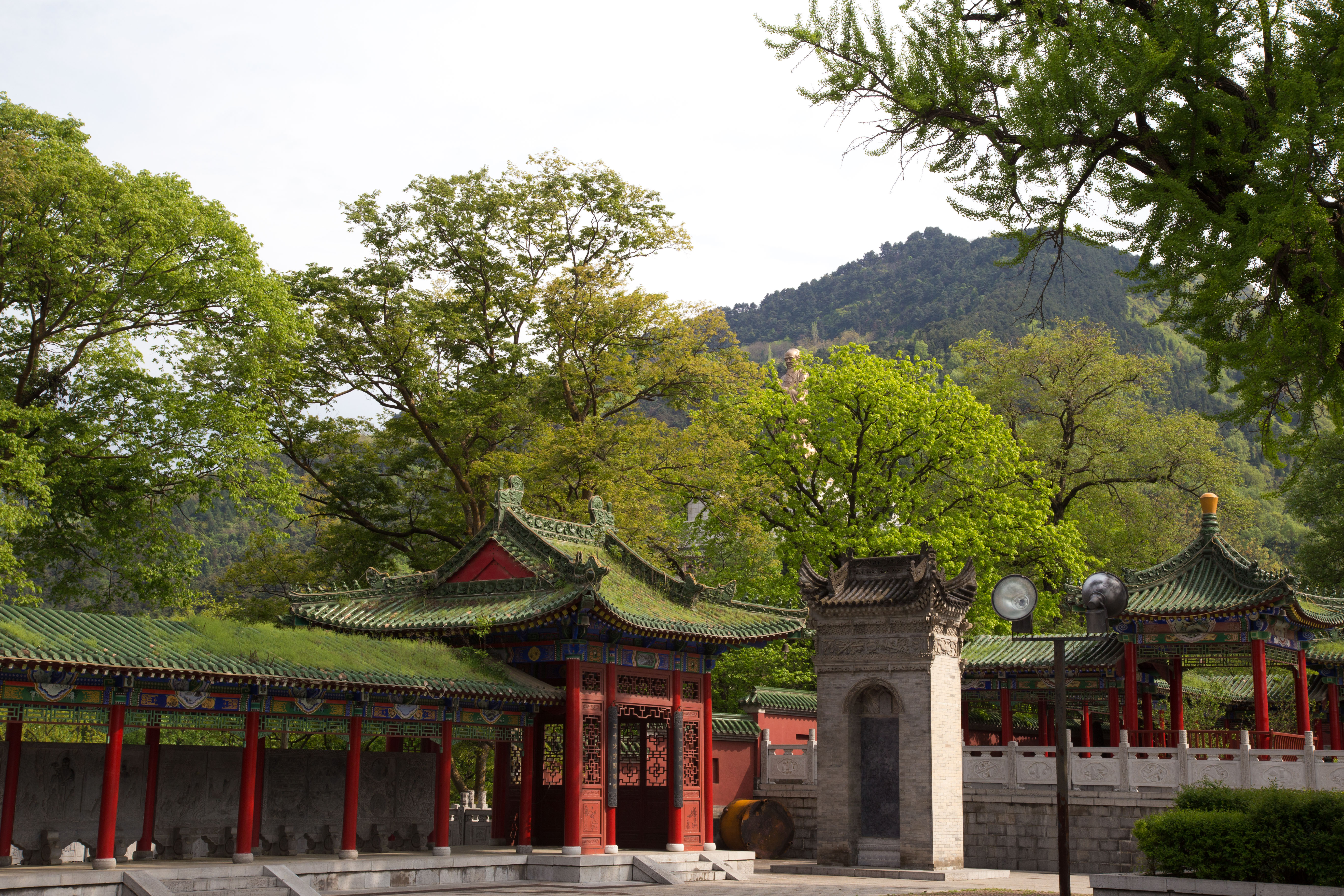 The Louguantai Temple, about 70 km, west of Xi'an, is the place where tradition says that Lao Tze, founder of Taosim, composed the Tao Te Ching. Notice the statue of Lao Tze among the trees in the back.